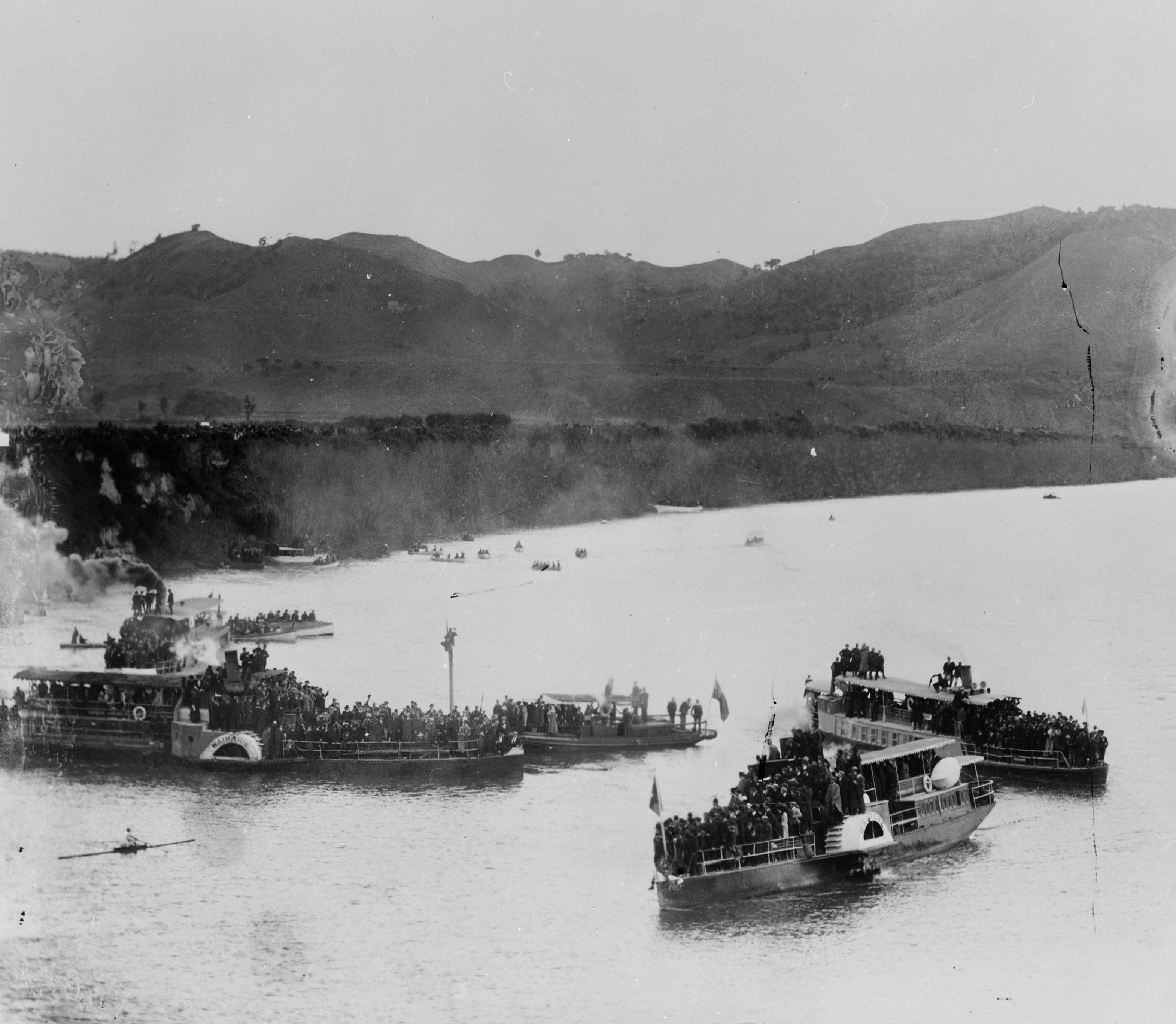 Webb vs Arnst sculling race, Whanganui River, including spectators on river bank and paddle steamers - Photograph taken by Frank James Denton.